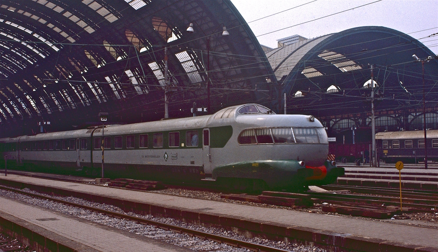 The TEE Settebello arriving at Milano Centrale station in 1983